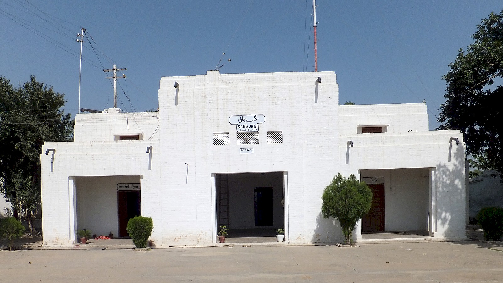 Sangjani railway station building from platform